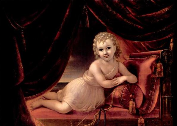 "Portrait of a Child as Cupid", painted c. 1836-37 in New York City. The painting depicts William Paterson Van Rensselaer, Jr.